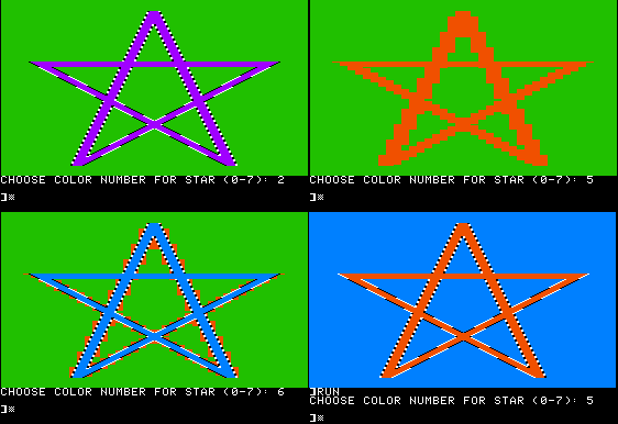 Demonstration of the fringe effects visible in the standard Apple II high-resolution graphics mode. Images generated from a simple BASIC program written by me and released into the public domain.